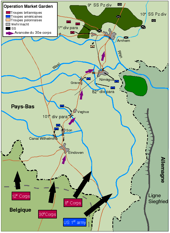 Taken from French Wikipedia without modifications. Licensed under Creative Commons CC-BY-SA; uploaded by French wikipedia user Greatpatton. *Description: Plan de l'opération Market Garden *Auteur: Arnaud Gaillard (arnaud ) *Source: *Note: Fichier svg et sdraw dispo sur demande *License: CC-BY-SA